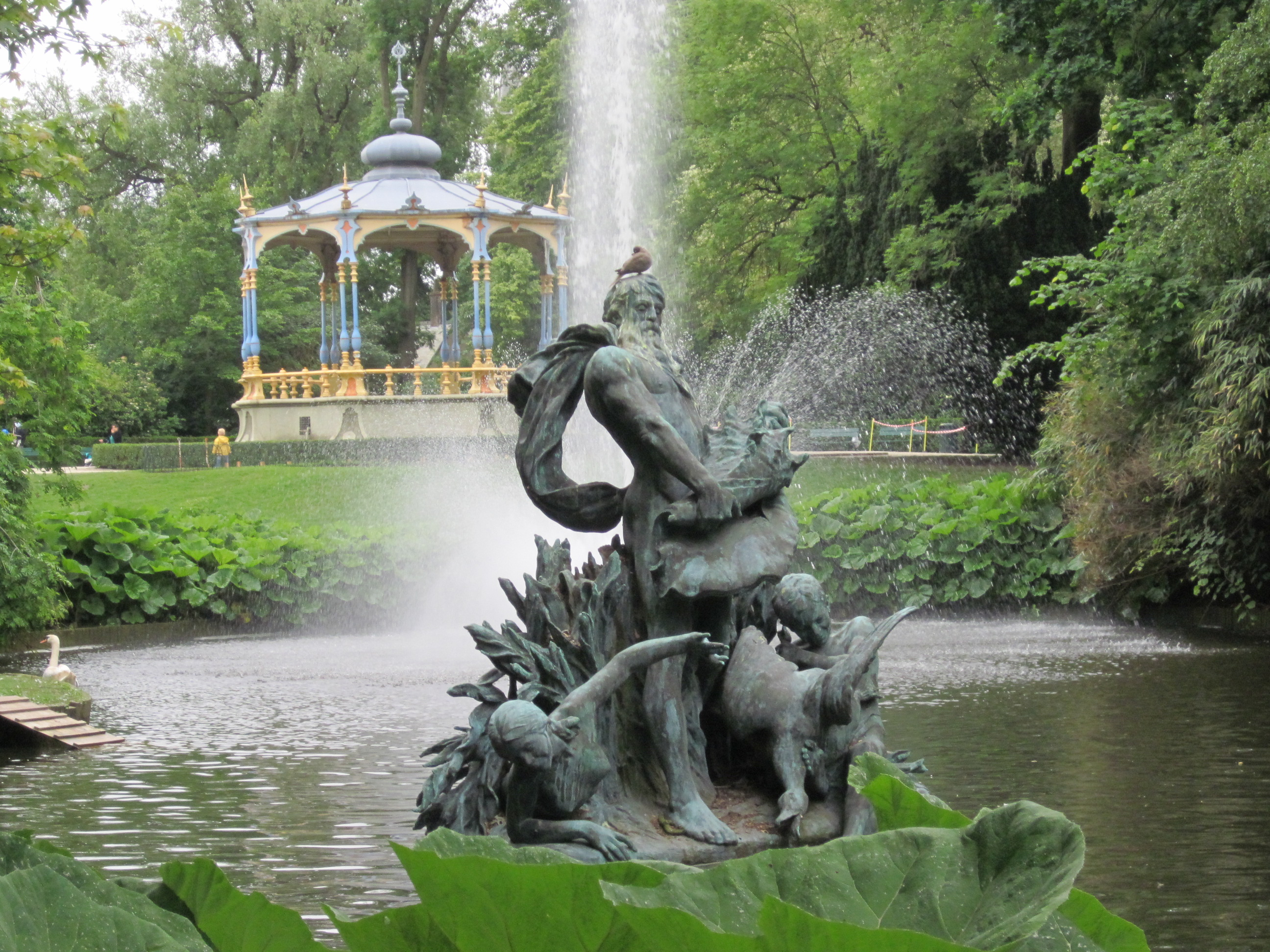 Astrid park in Bruges